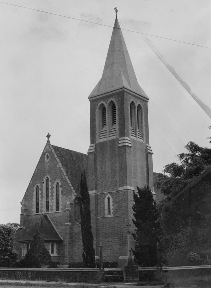 Christ Church of England in Bundaberg, 1954